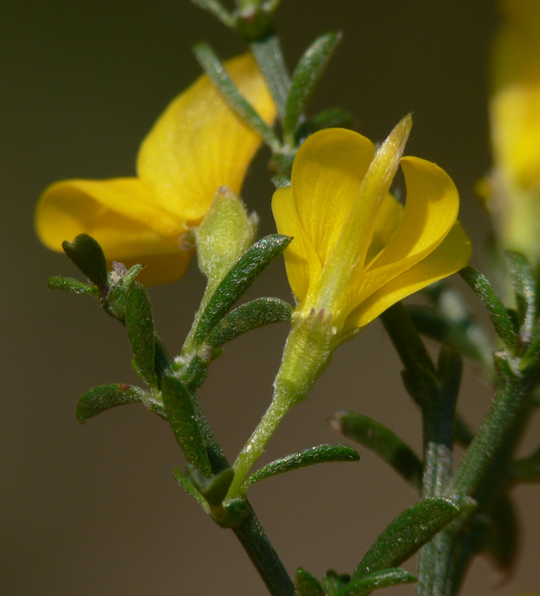 hairy greenweed - Genista pilosa